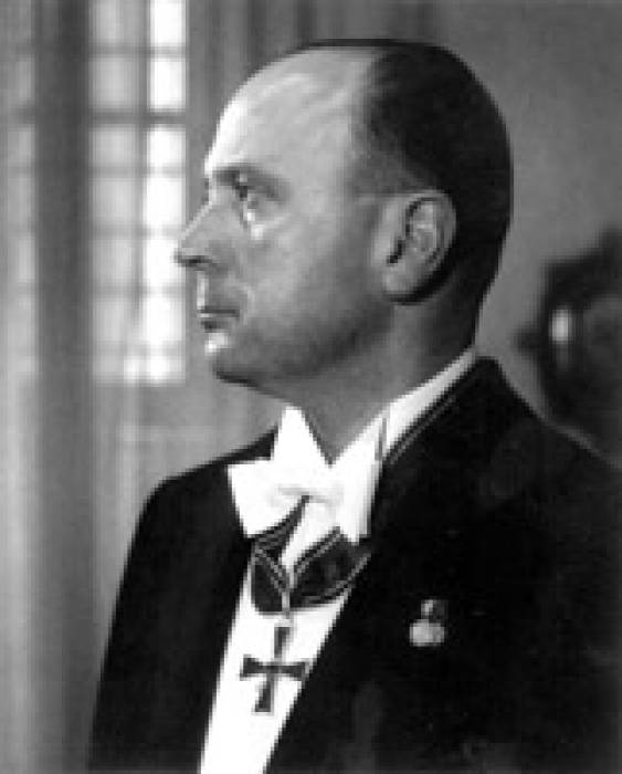 Italian WW2 spy Rodolfo Siviero.